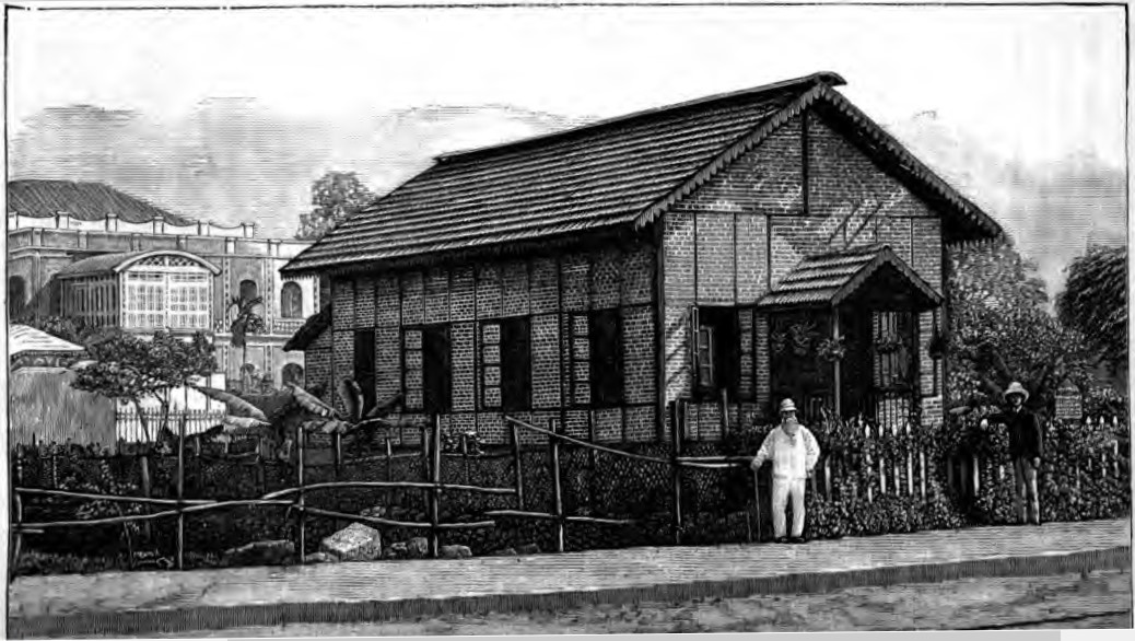 A Sketch of the Mission at Bombay (Clutterbuck, p.198), A Sketch of the Mission in Bombay, Rev, G W Clutterbuck, Wesleyan-Methodist Magazine, 1889